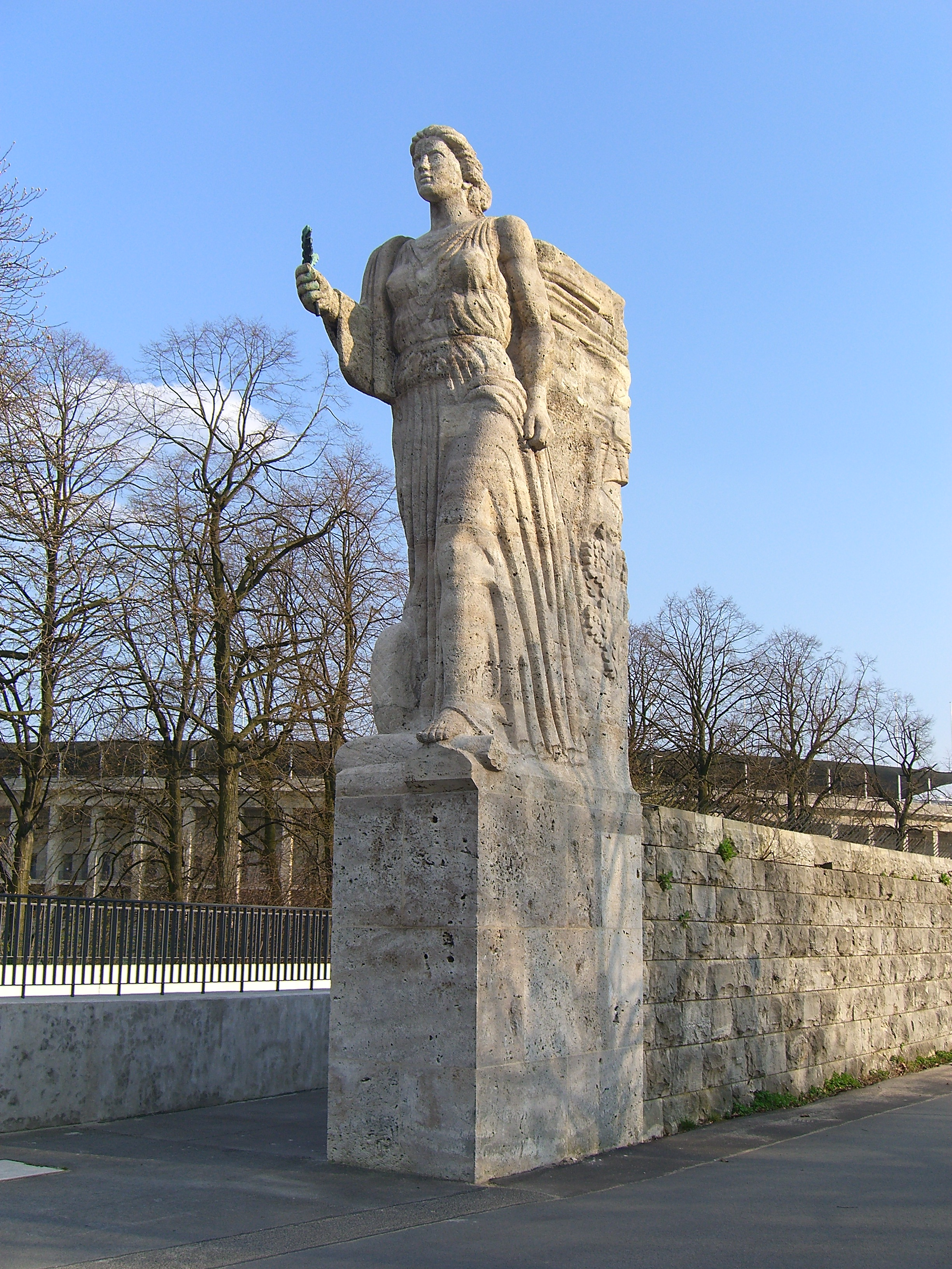 statue "German Nike" by Willy Meller (1936) at the olympic area in Berlin; in the background the olympic stadium